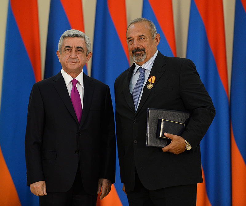 Baykar Sivaslyian